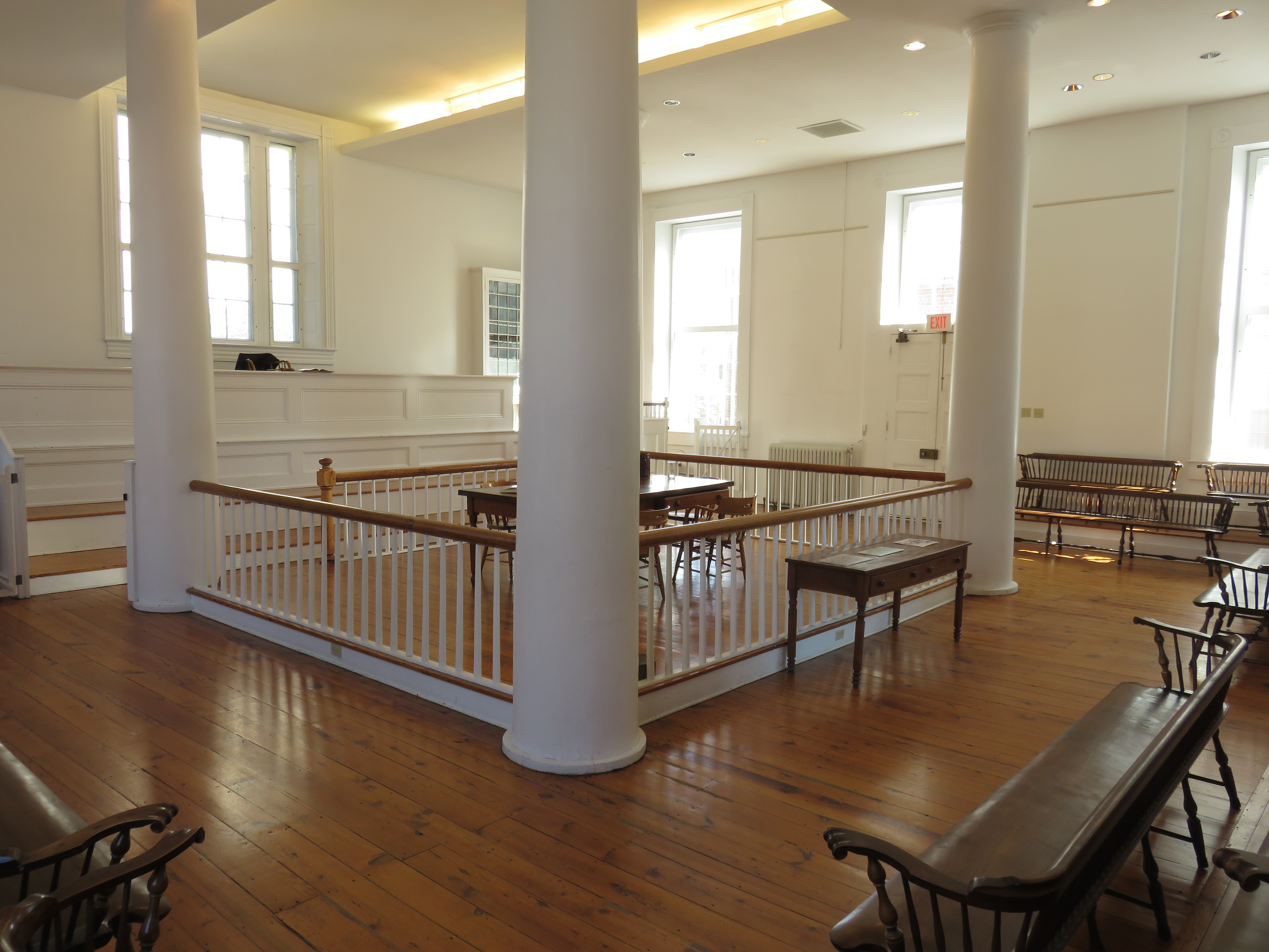 Shenandoah Valley Civil War Museum, housed in the Old Frederick County Courthouse, in Winchester, Virginia in 2019